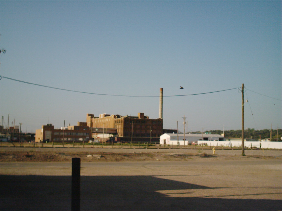 Slightly fuzzy picture of KD Station viewed from the south side.